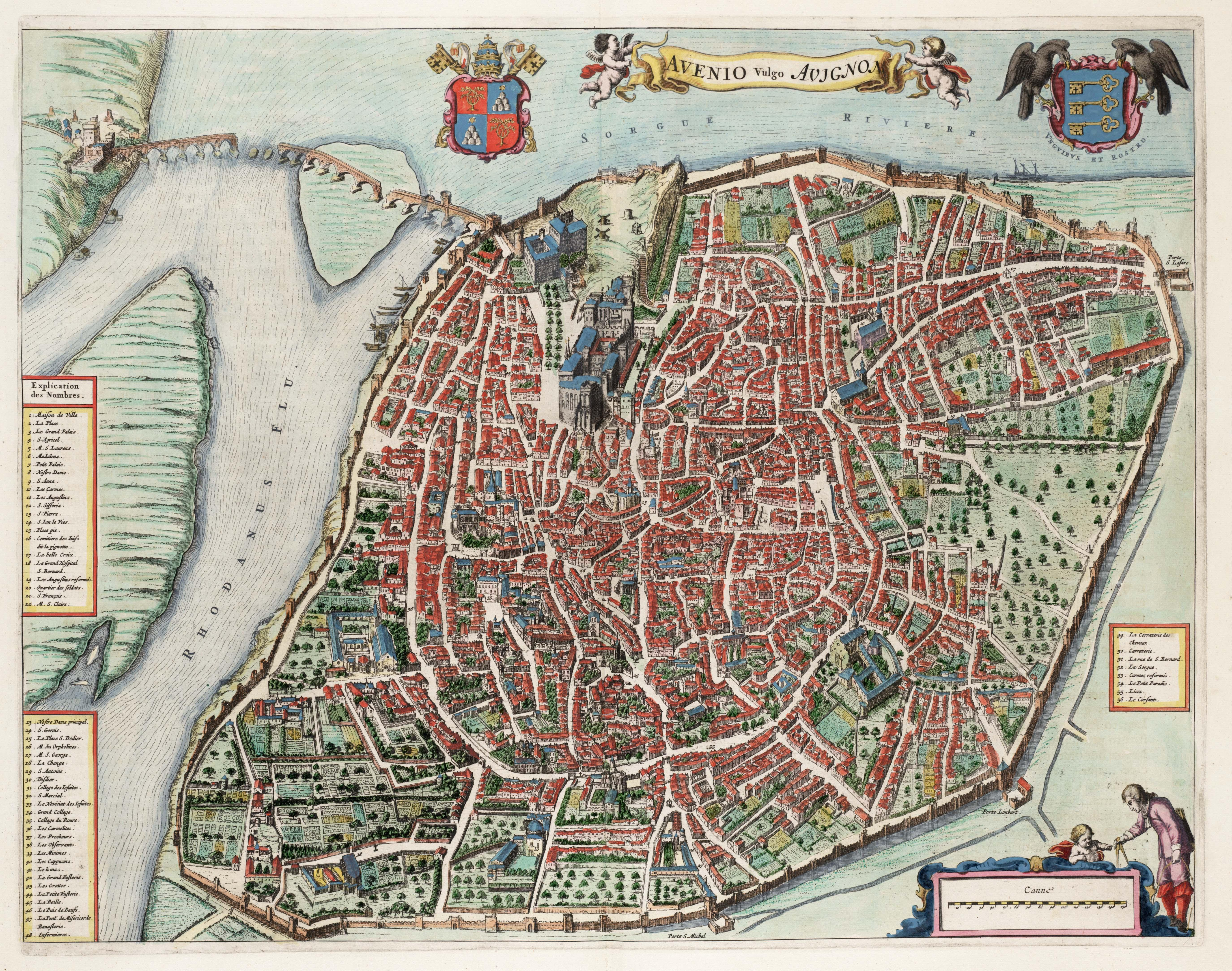 Title:Avenio Vulgo Avignon This plate is from the Atlas Van Loon, which contains two volumes of the French edition of the Willem Blaeu's Atlas Maior, covering France and Switzerland, from 1663. The drawing of the town is a copy of an earlier map in 8 panels dated 1618 in the Bibliothèque national de France (Va 84 Tome 1 H 159061-8). This is not currently available from Gallica. The panels of the 1618 map are reproduced in the book: Girard, Joseph (1958). Évocation du Vieil Avignon. Paris: Les Éditions de Minuit. OCLC 5391399. The 1618 map gives the authors as Marcus Antonius Gandolfus (Marco Antonio Gandolfo) and Theodorus Hochstraie (Théodore Hoochstraten, an engraver from The Hague) (pp. 76-77). A low quality image of the 1618 map is available online on page 10 in the document available here. For more information on the 1618 map see: Breton, Alain (1986) "Prix-fait de la gravure du plan de 1618", Annuaire de la Société des amis du Palais des papes et des monuments d'Avignon, pp. 63-64.